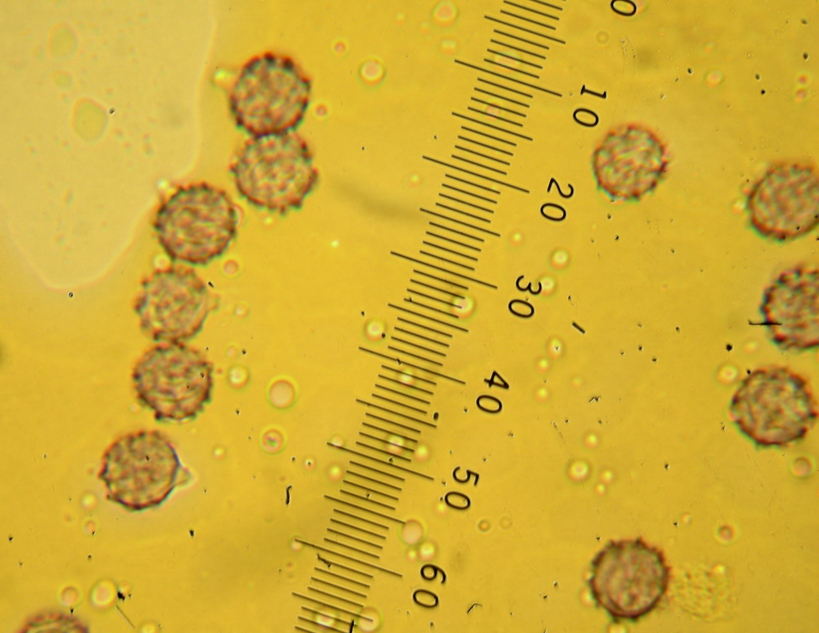 Spores of Russula fragrantissima